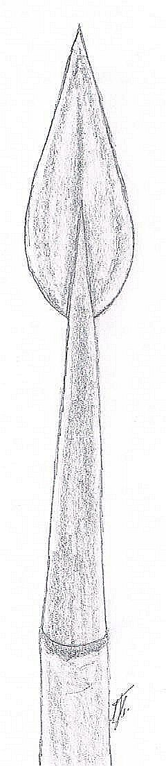 Roman Verutum-Spear